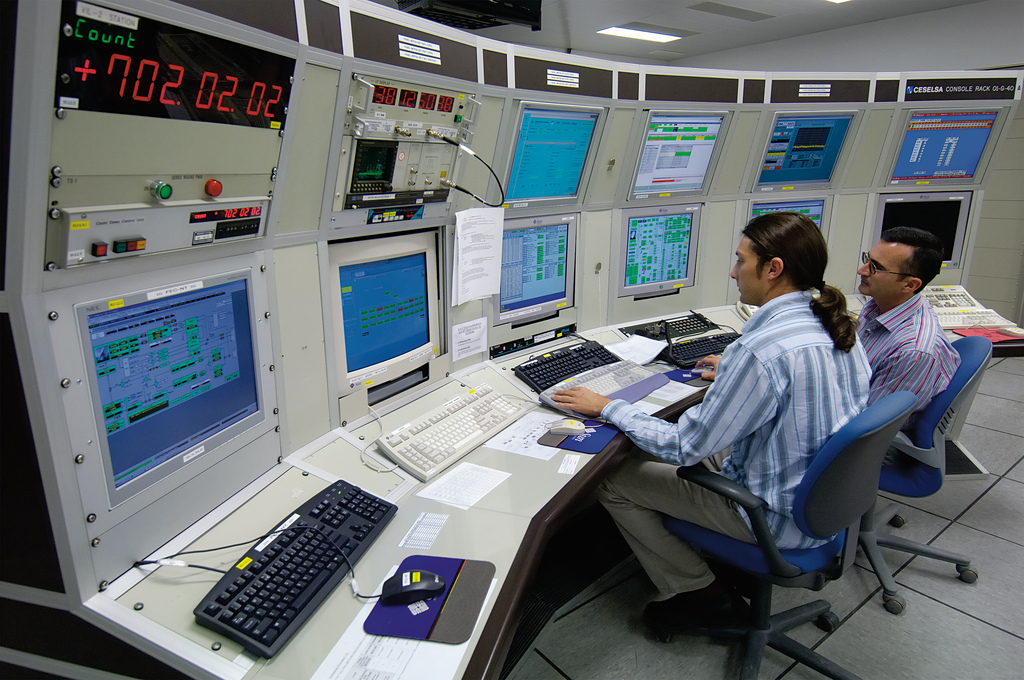 European Space Astronomy Centre at Villafranca del Castillo This photograph can be used for publications, including this copyright statement: “©PromoMadrid, author Max Alexander”. Esta fotografía puede usarse en publicaciones, incluyendo la declaración “©PromoMadrid, autor Max Alexander”.